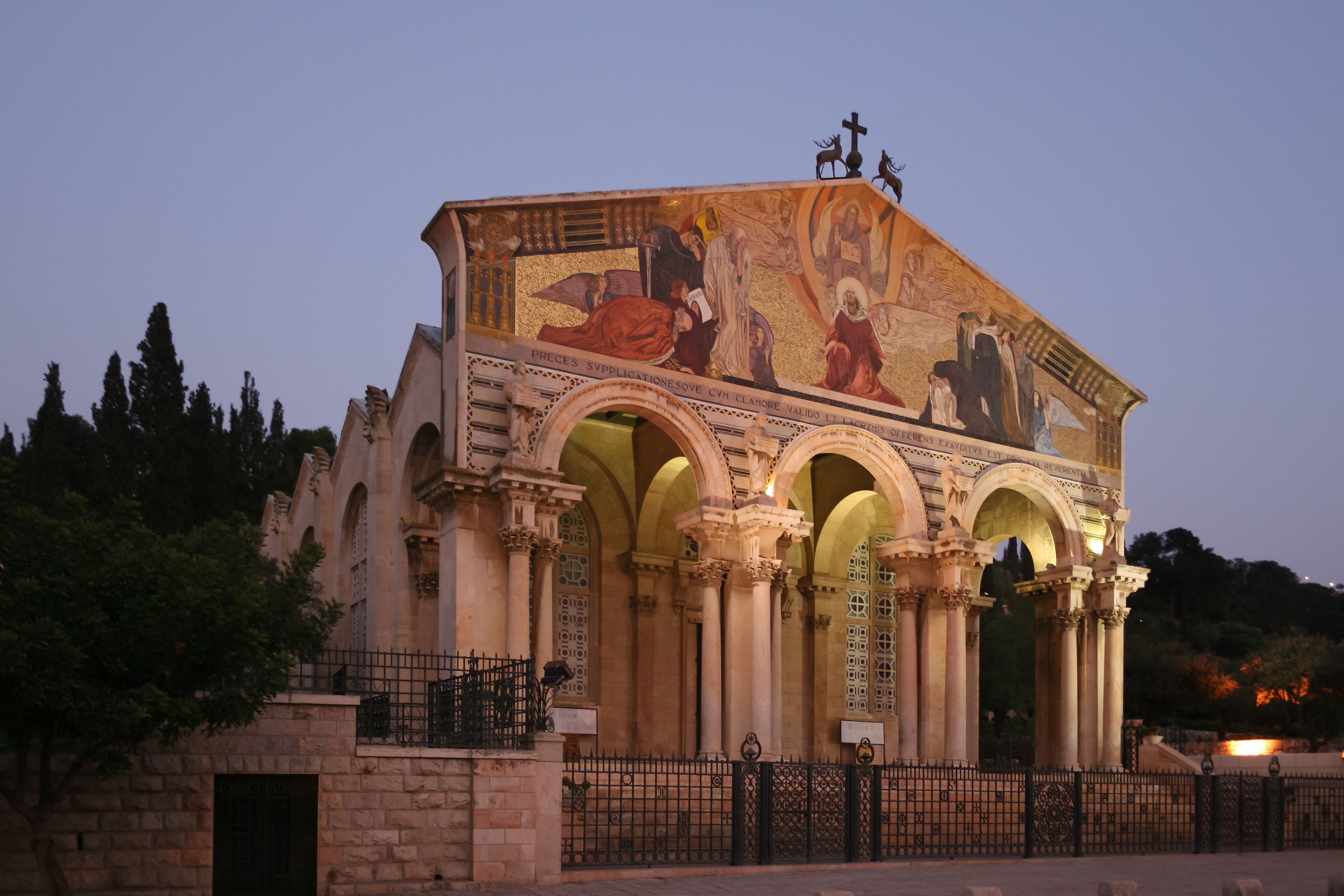 Church of All Nations, Jerusalem